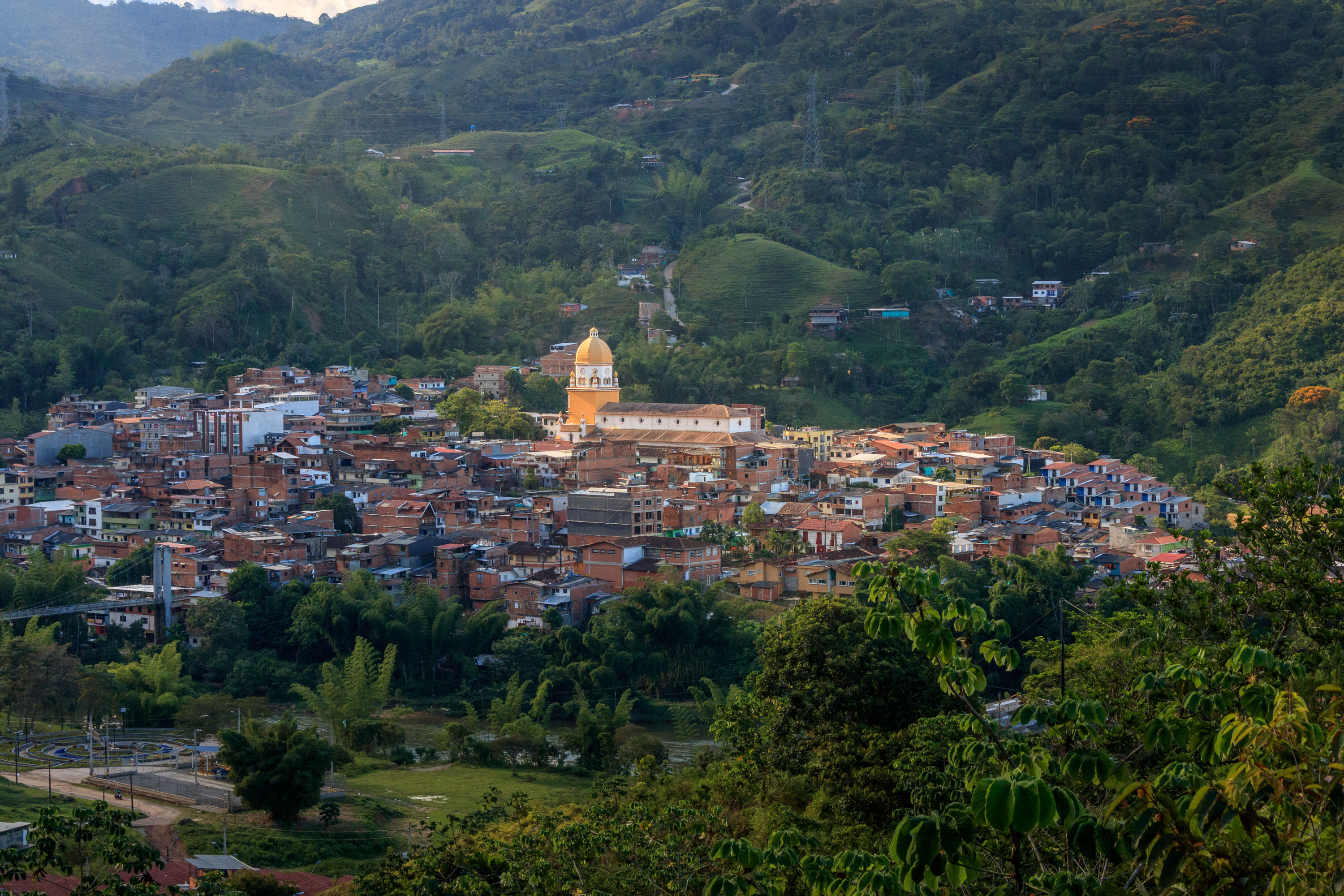 San Rafael